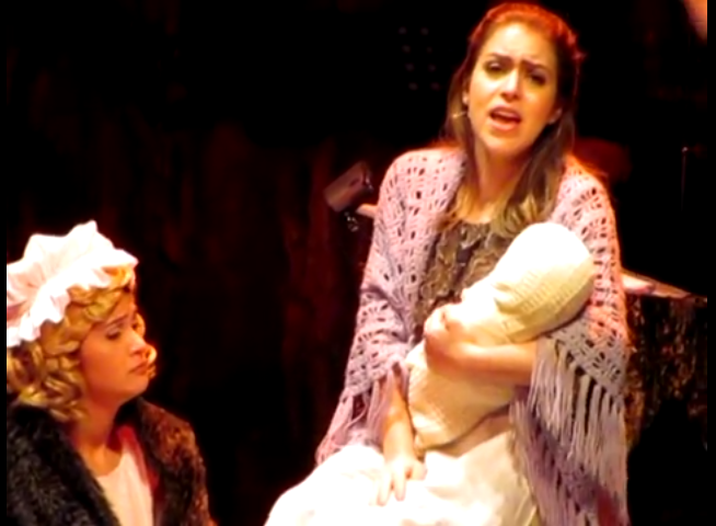 Luciana Andrade no musical "Into The Woods", em 2010.